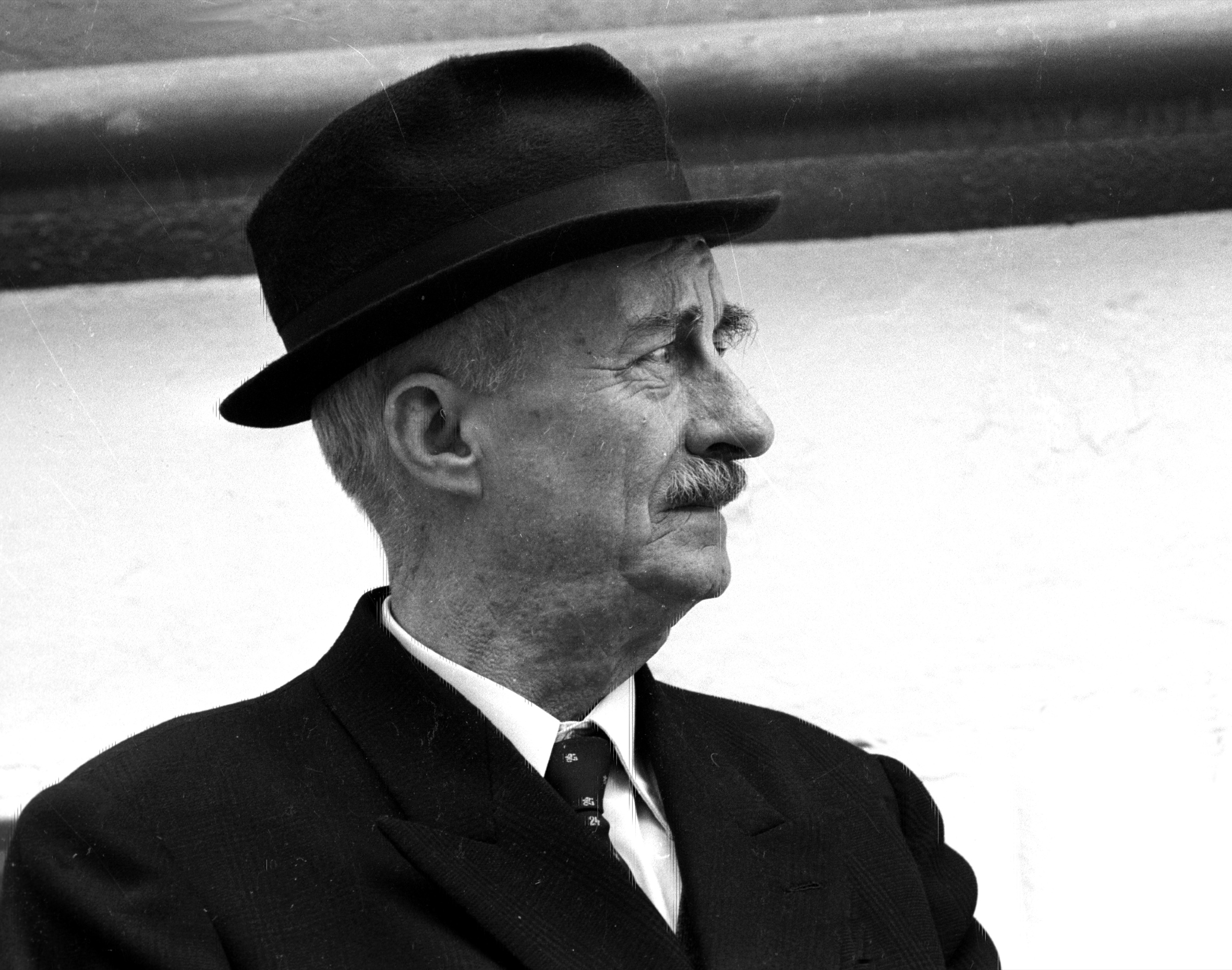 Jean-Marie Lelièvre